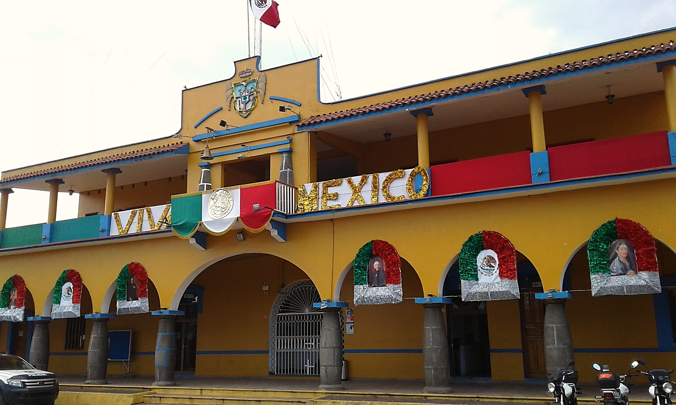 city ​​hall of amatlán